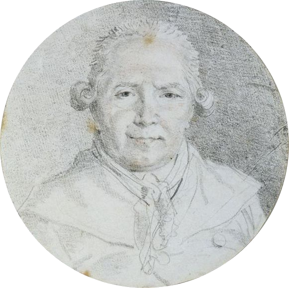 Jean-Honoré Fragonard (self-portrait). Drawing, 12.6 × 12.6 cm, Le Louvre, Paris.